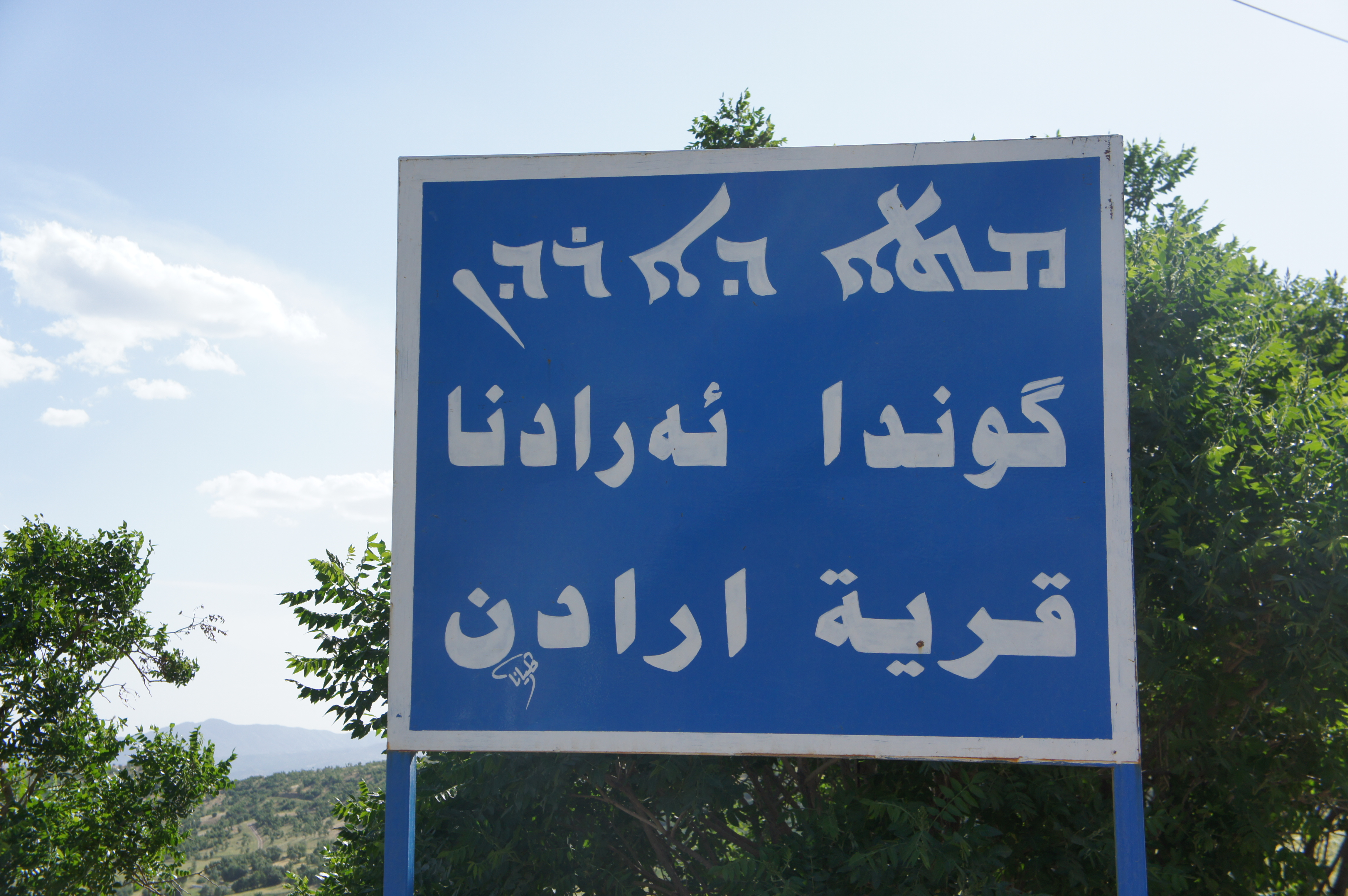 Road sign near Eradina, a christian village in Dohuk Province, Iraqi Kurdistan, Federal Iraq, showing the place name in Aramaic, Kurdish and Arabic.Kurdî: Tabelayeke riyê nêzîkî gundê Eradina ku navê gundî bi aramî û kurdî û erebî nîshan dide.